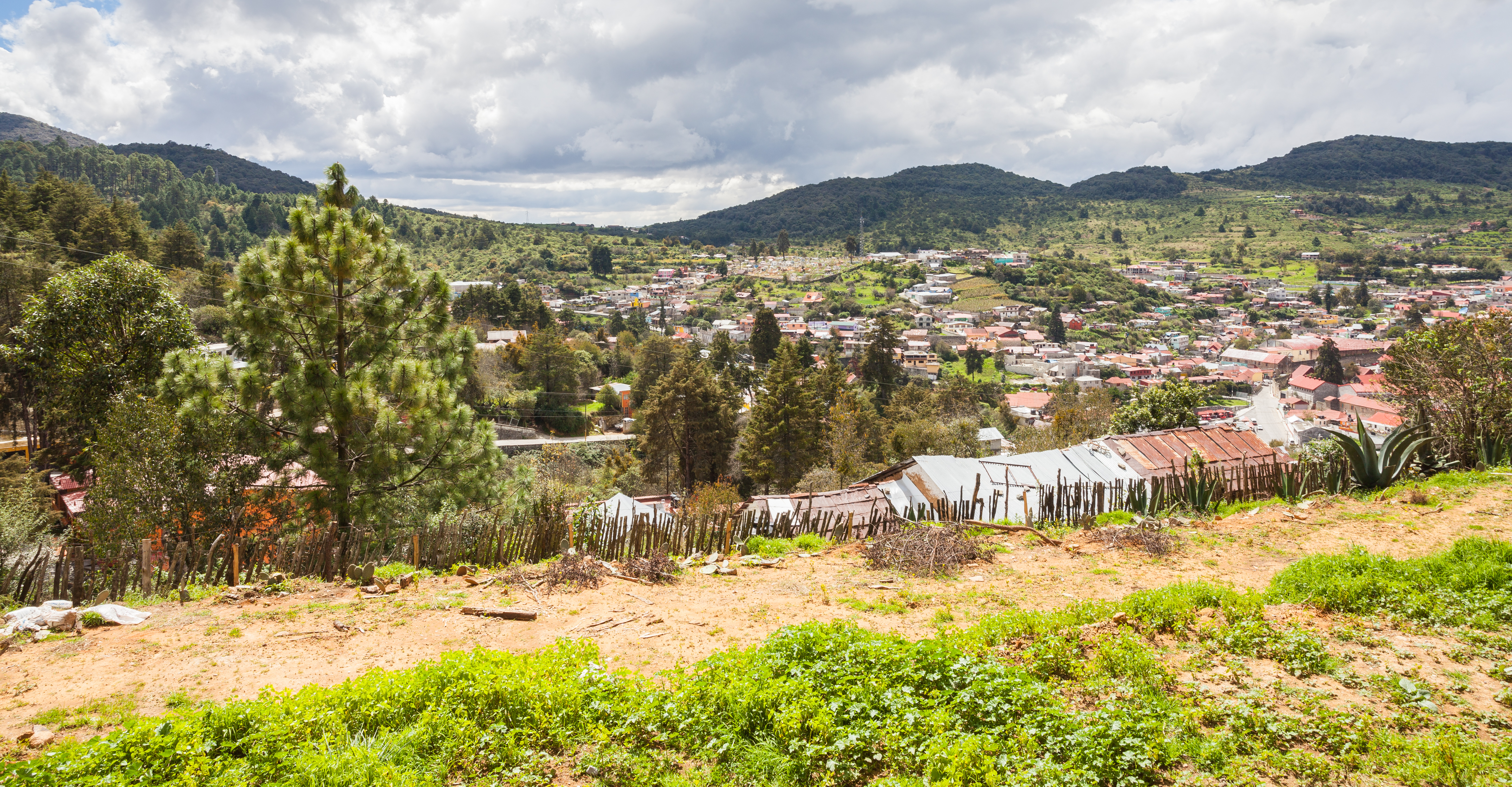 View of Real del Monte, Hidalgo, Mexico